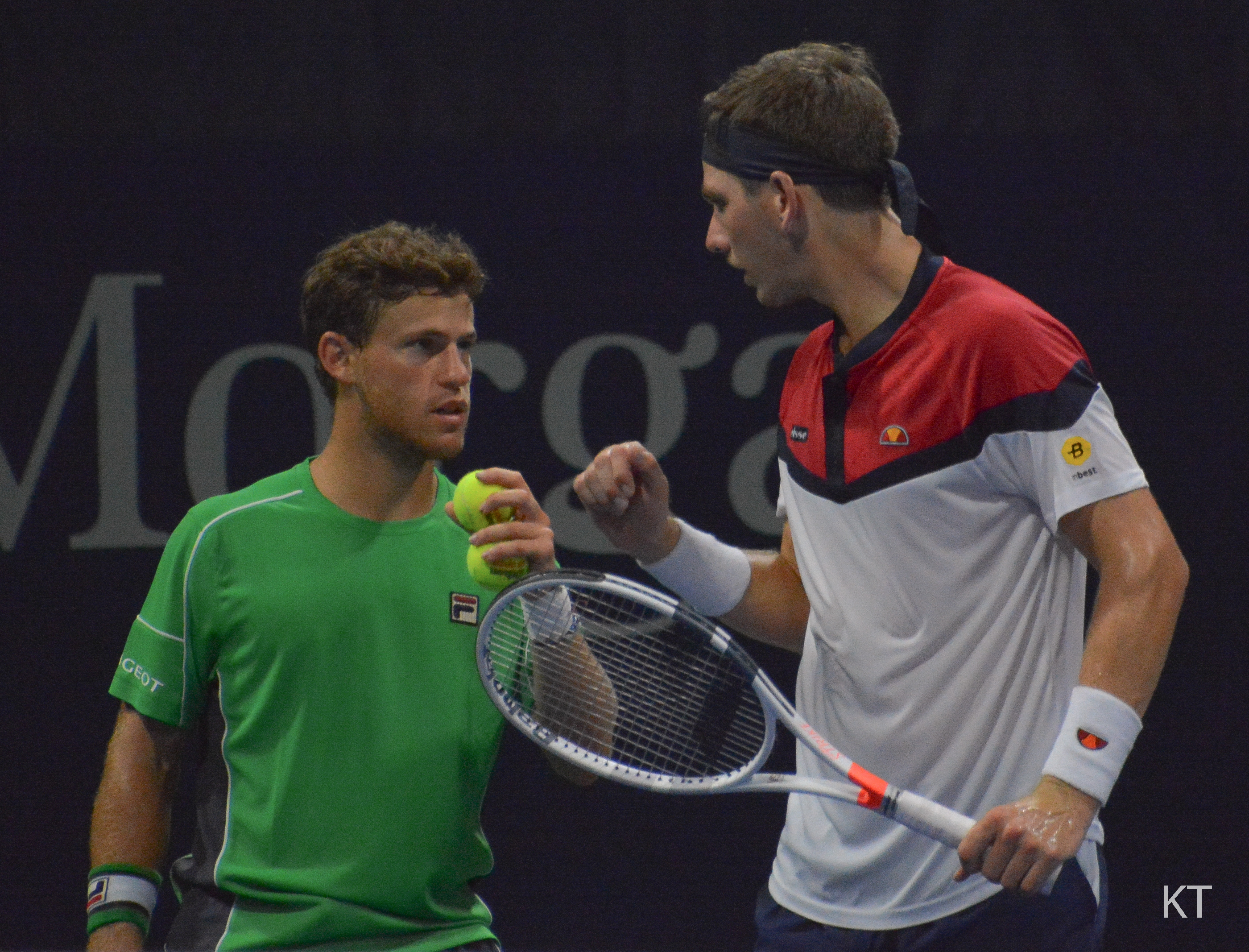 First round of men's doubles: Cam Norrie & Diego Schwartzman v Dusan Lajovic & Stefanos Tsitsipas. Day 4 of US Open 2018.